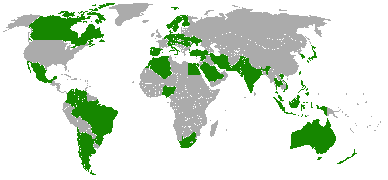 Based on Image:BlankMap-World-v5.png. Depicts middle powers according to B Wood, The Middle Powers and the General Interest, Middle Powers and the International System, 1, The North-South Institute, Ottawa, Canada, 1988, page 17